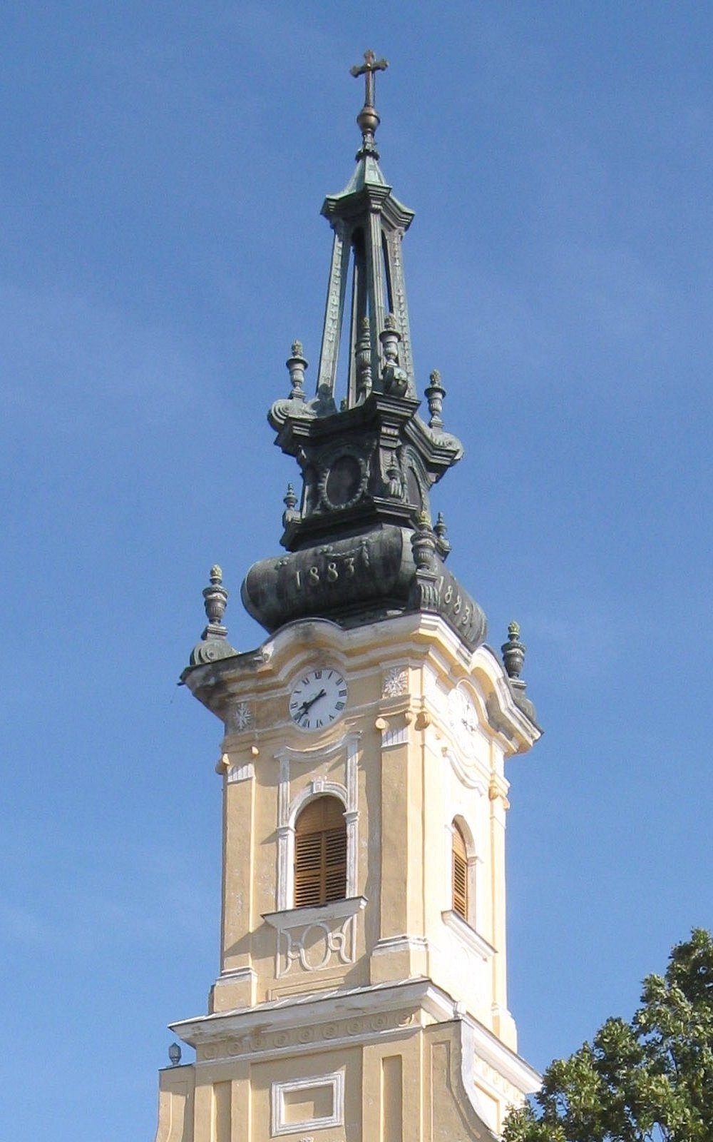 The bell tower of Greek Orthodox church of St. Hierarch Nicholas in Nădlac, Romania, built 1883